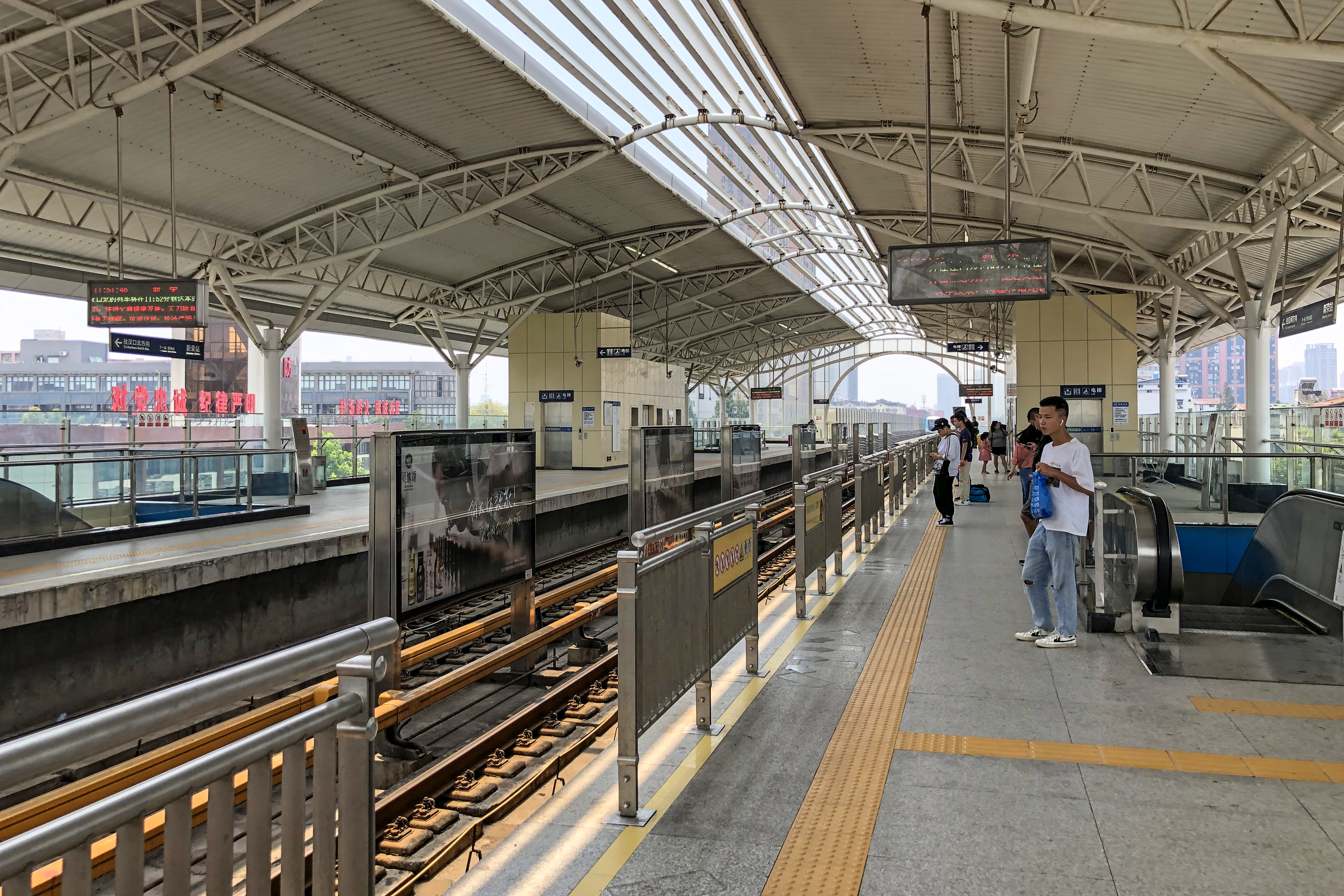 Time to go now for G516.